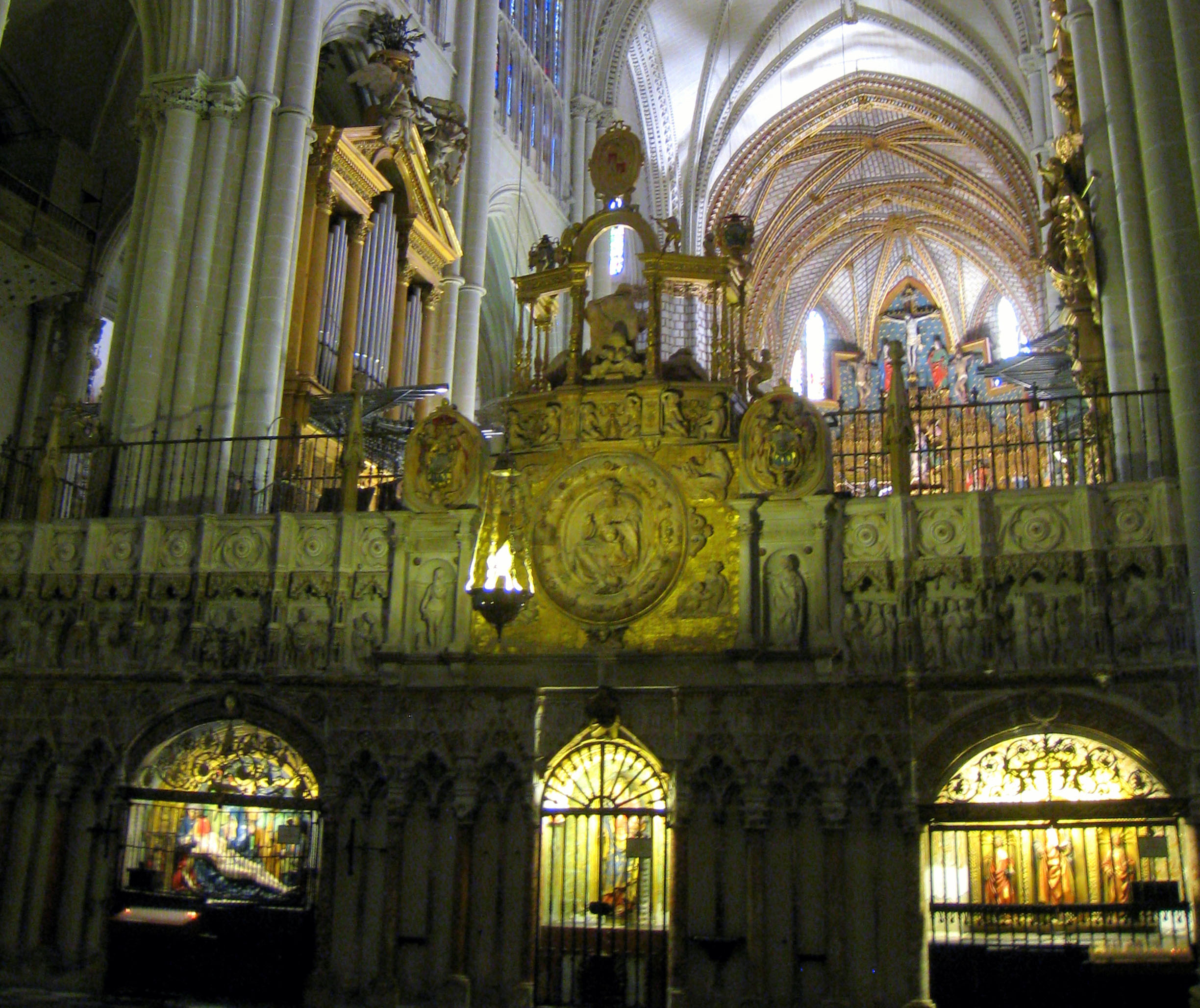 Cathedral of Toledo, Spain.